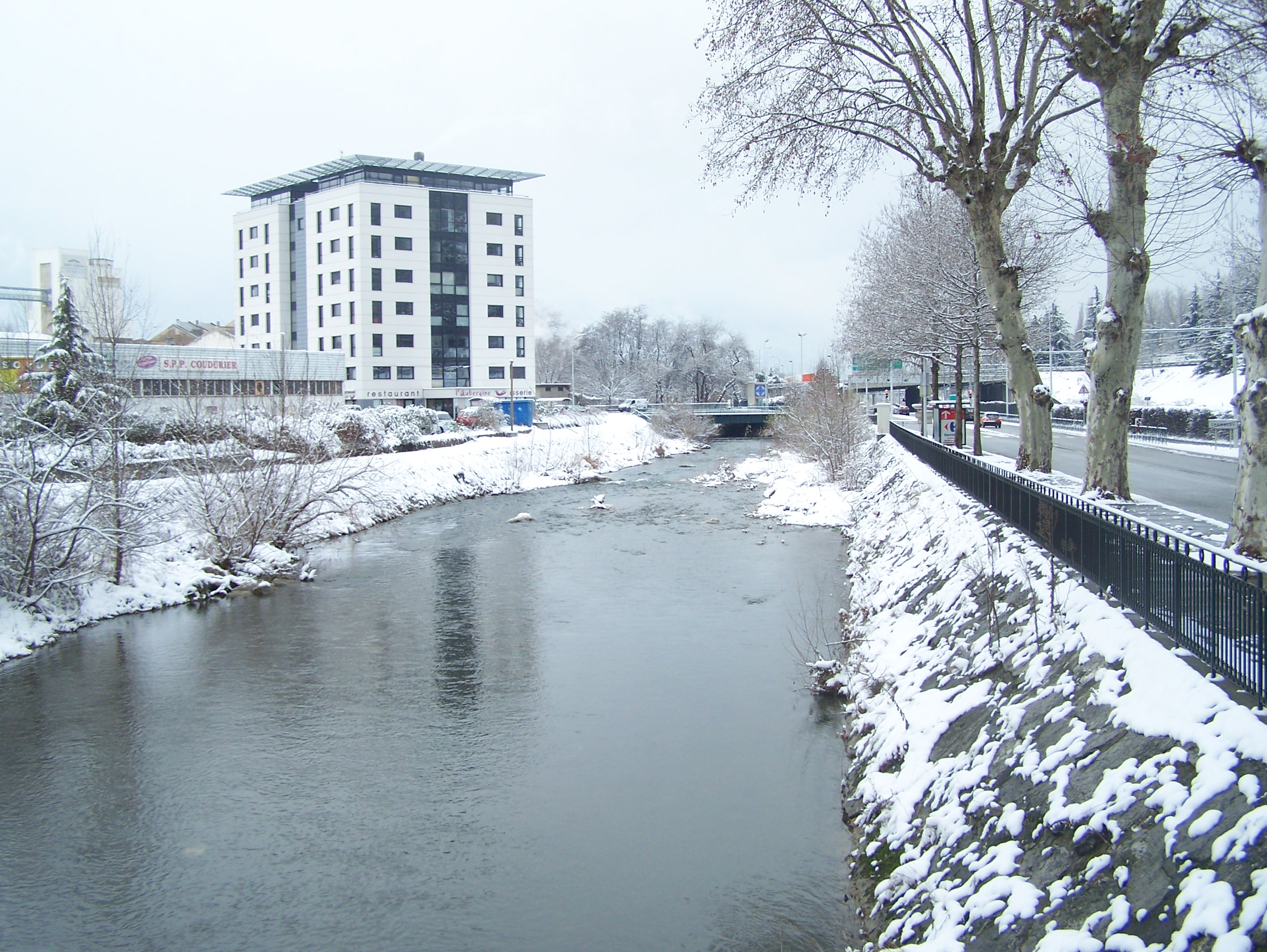 The Leysse river (Chambéry, France) in winter.